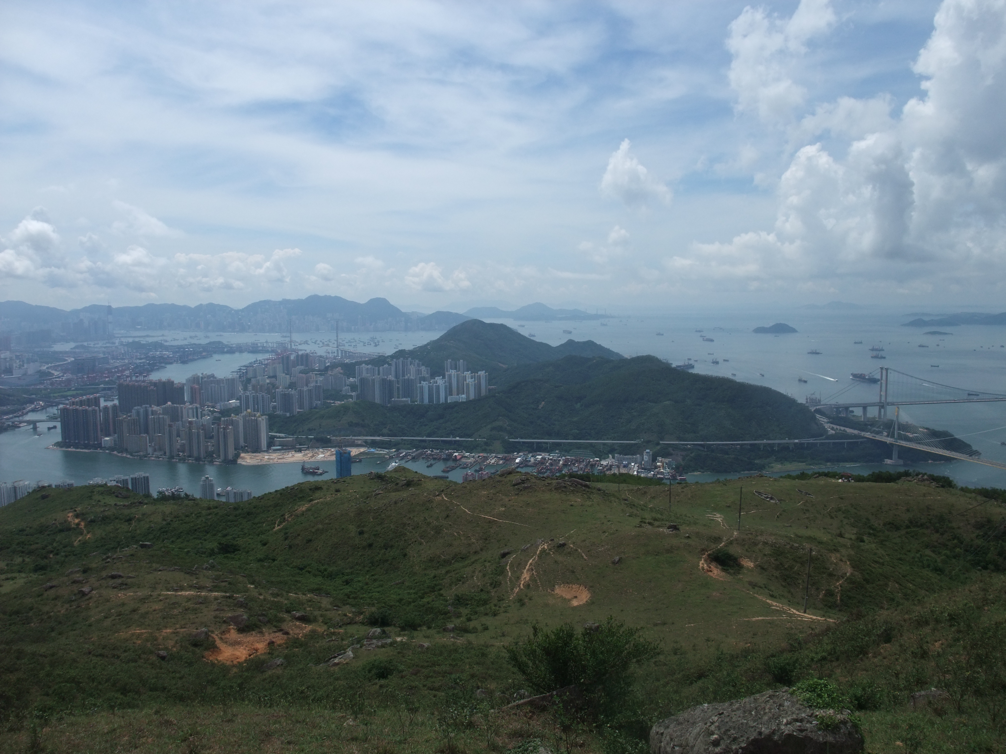 Photo of Tsing Yi